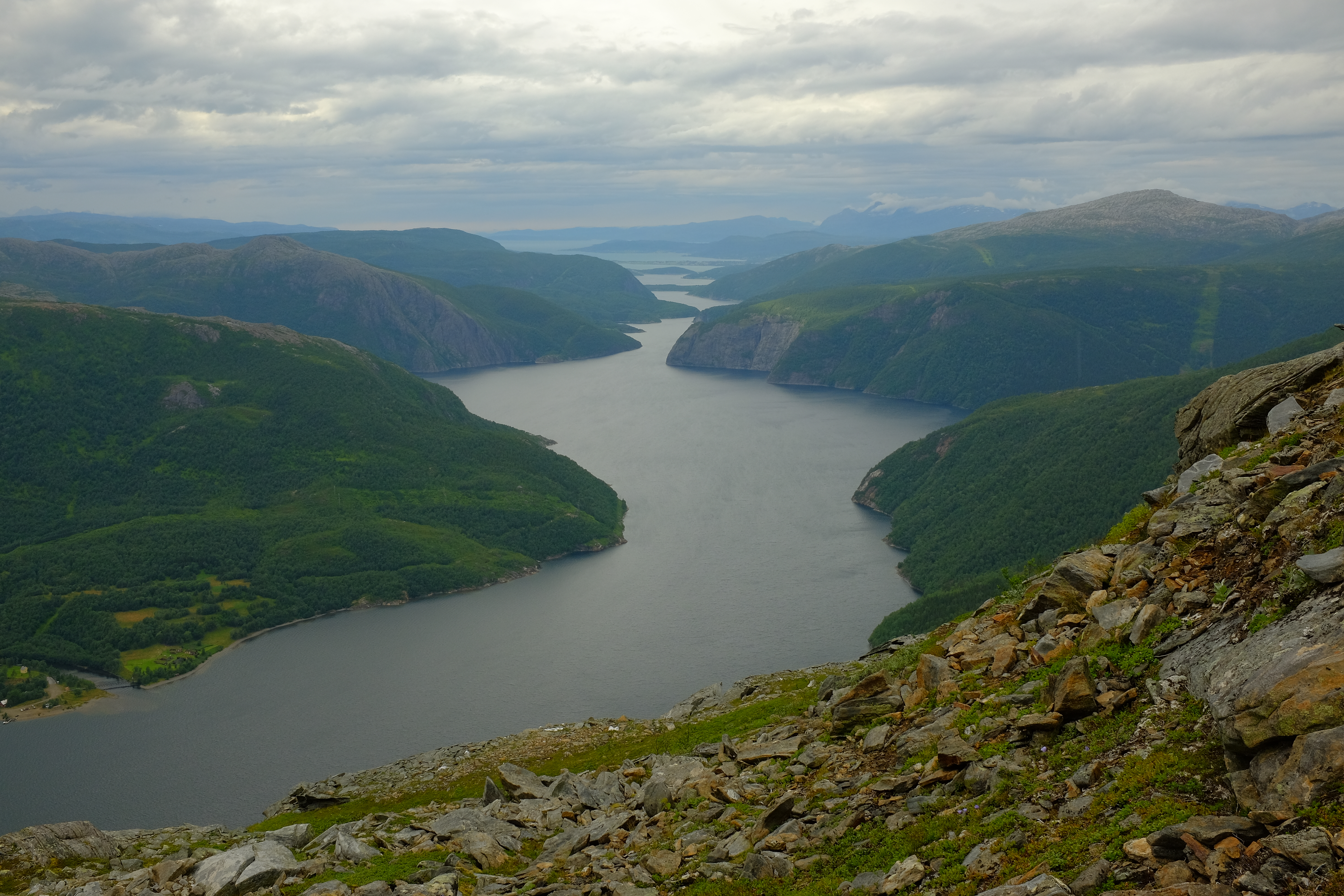 Øvervatnet is a lake in Fauske municipality in Nordland. The lake is a part of Sulitjelma watercourse.